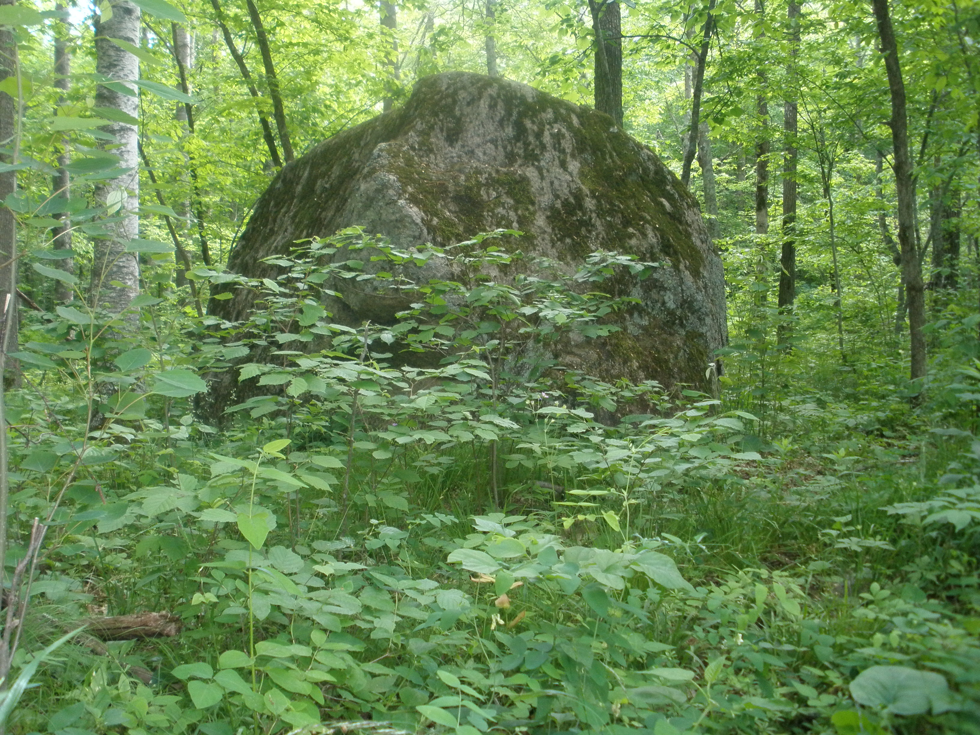 Glacial erratic in Straight Lake State Park, Wisconsin, USA